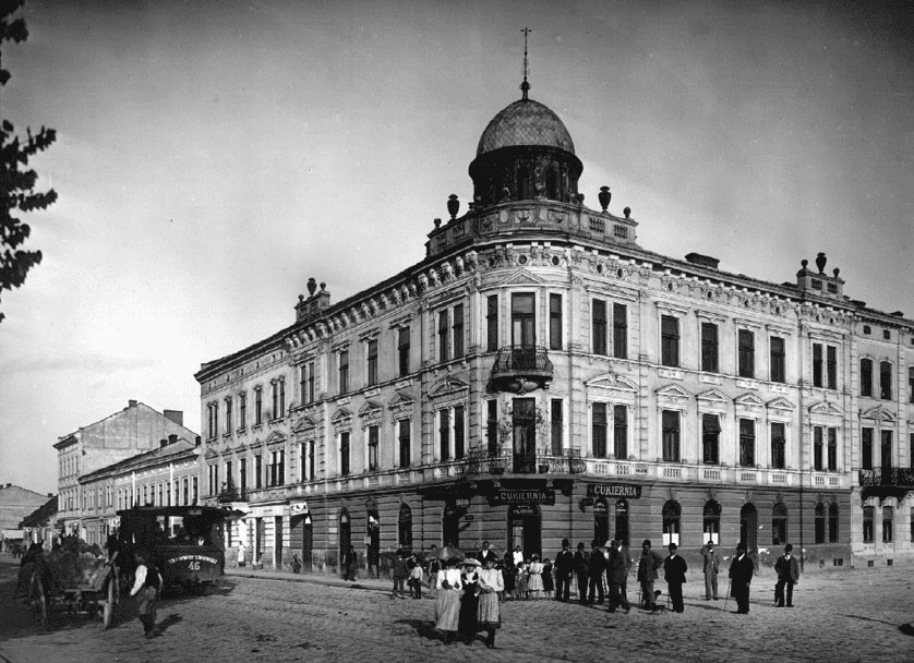 Crossroad street Grodecka & square Solarni (today street Horodotska and square Kropyvnytskoho in Lviv). 1896